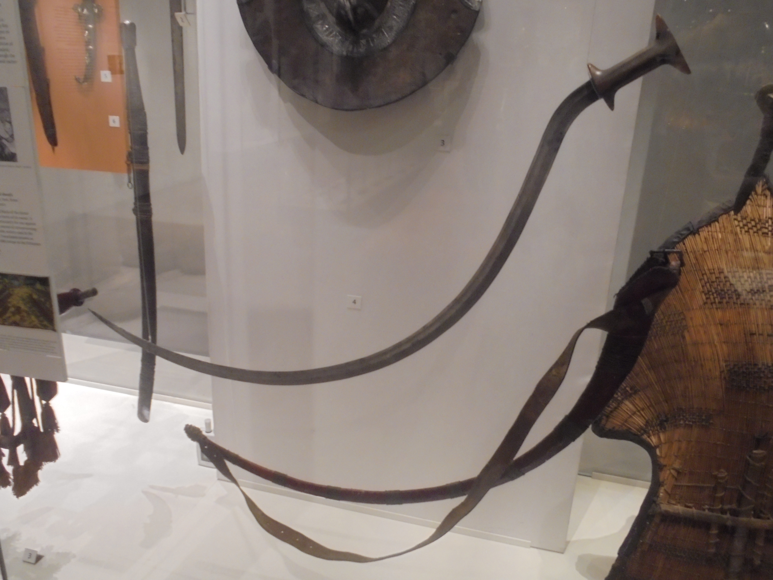 Shotel, BM